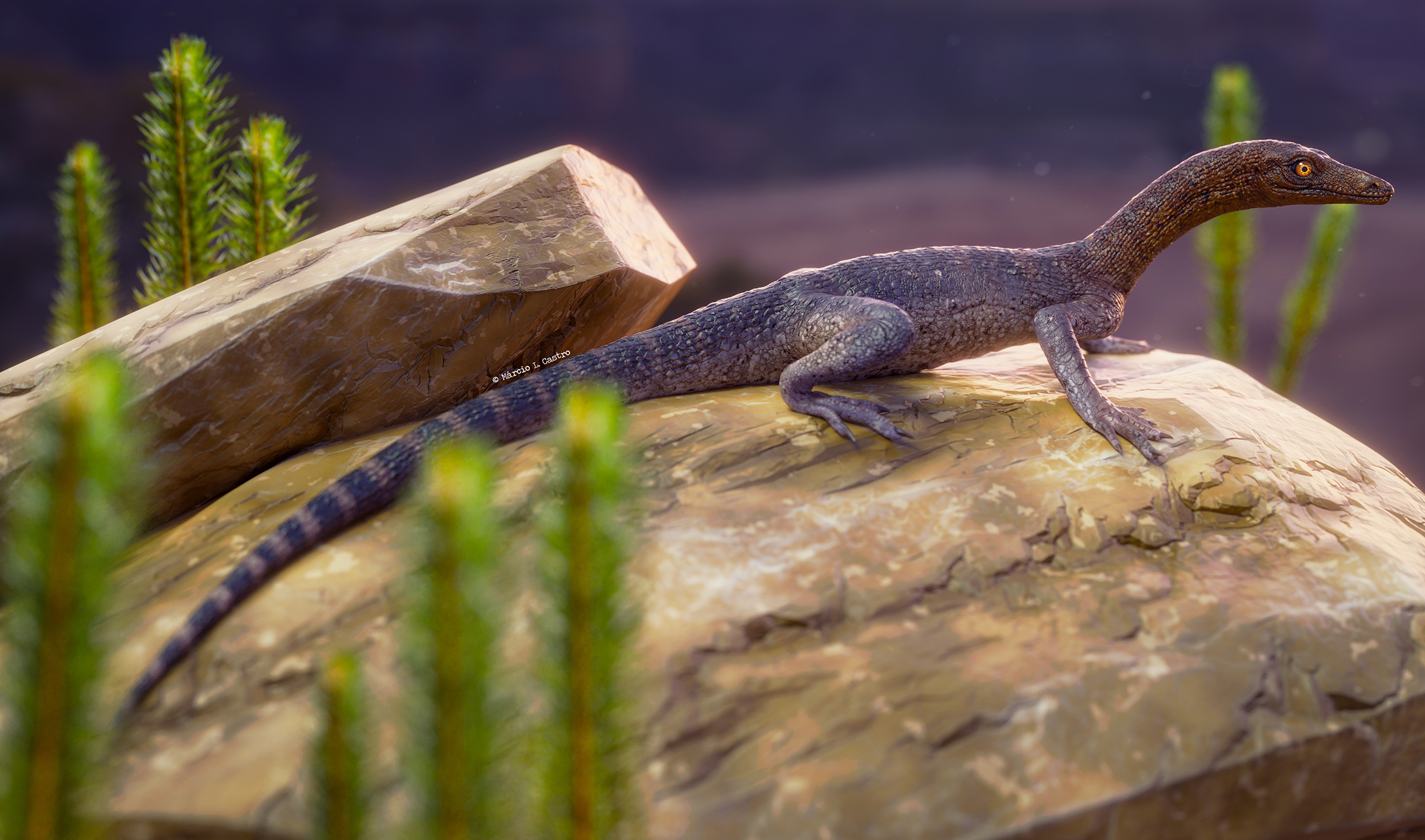 Life restoration of Elessaurus gondwanoccidens, from the Sanga do Cabral Formation (Lower Triassic), Brazil. Artwork by Márcio L. Castro.